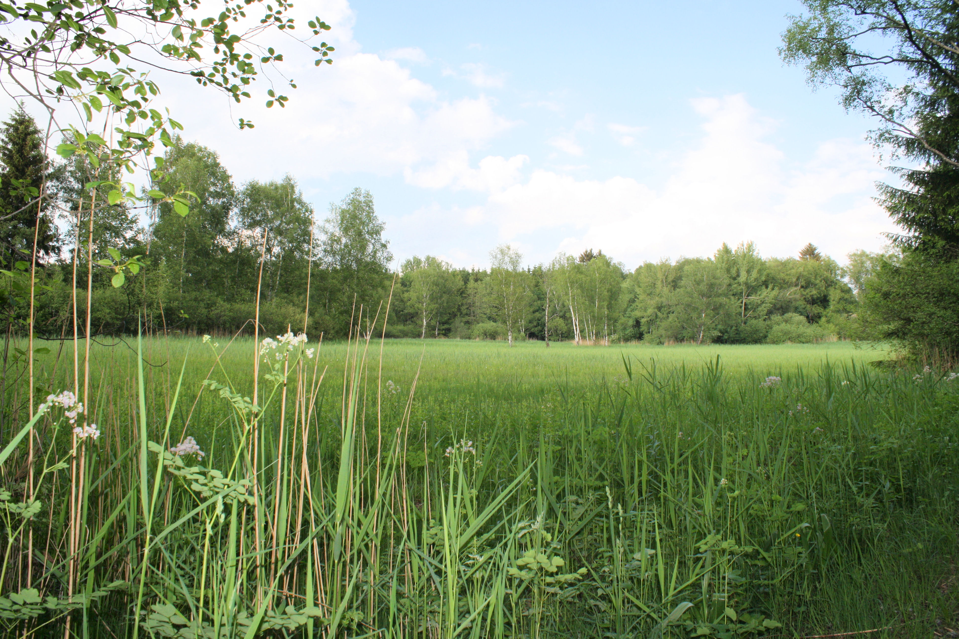 The reserve Wasenmoos